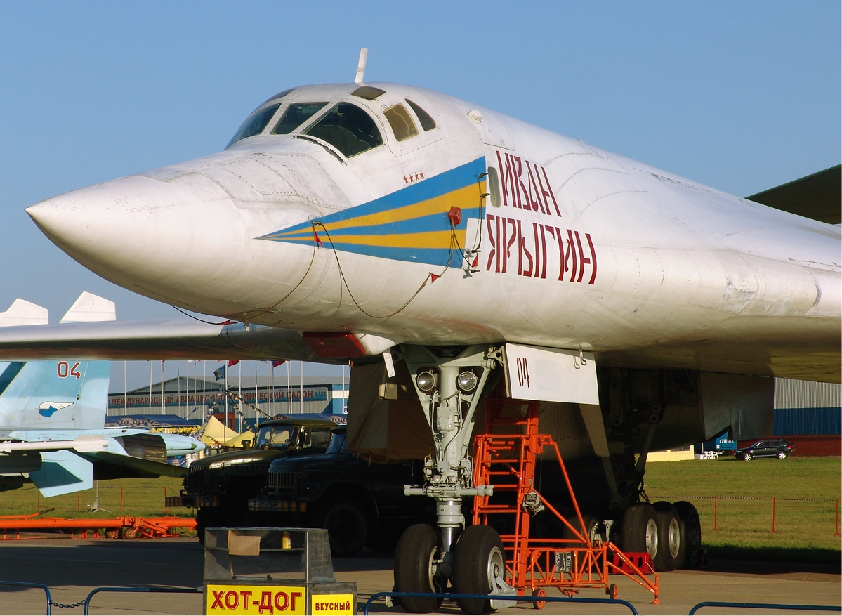 A Tupolev Tu-160 of the Russian Air Force